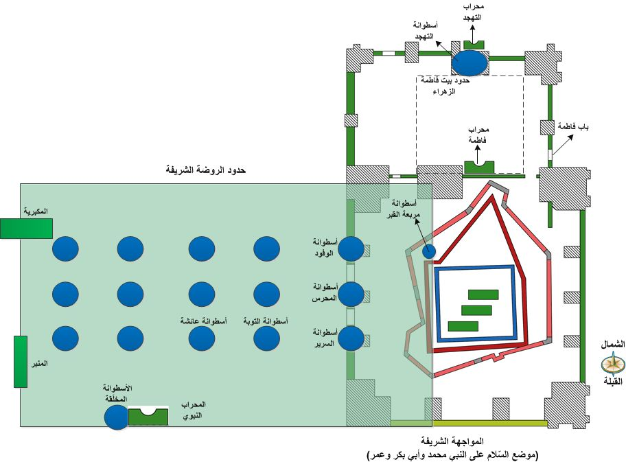 Al-Masjid Al-Nabawi Cylinders